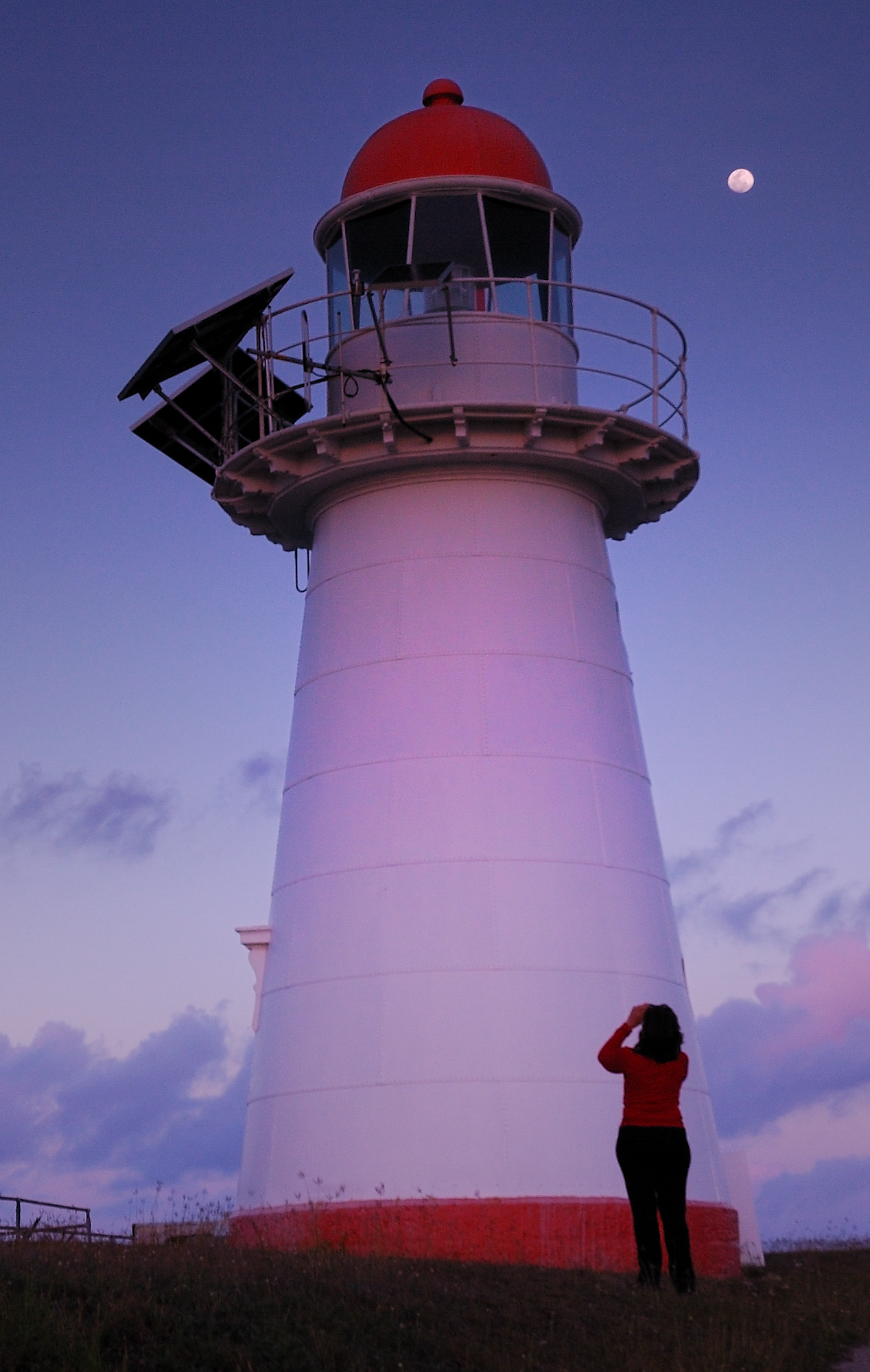 Cape Cleveland Light at dusk with moon